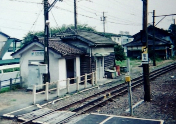 Meitetsu Tanigumi kine Kitanobata Station (2001)